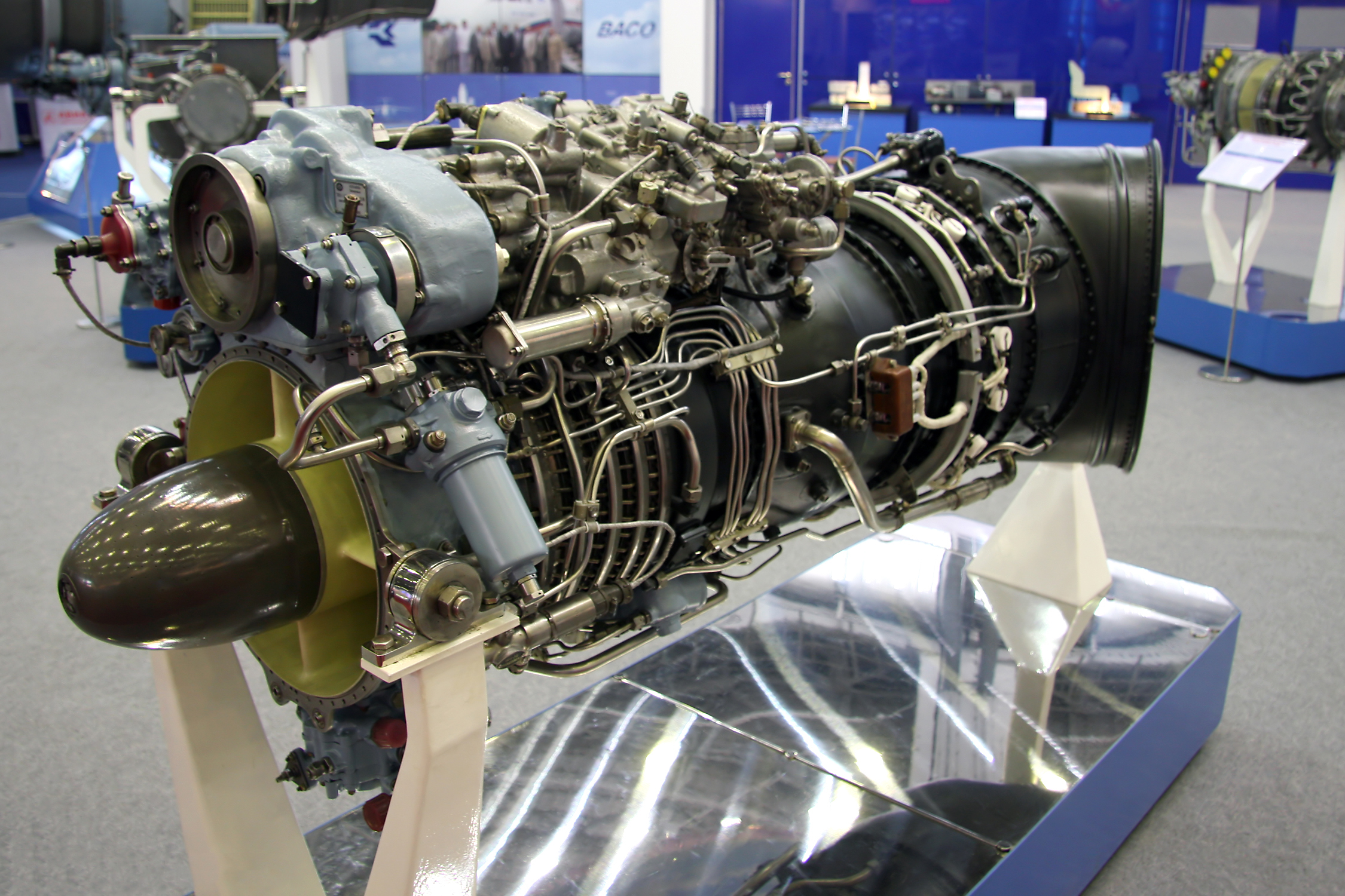 TV3-117VMA-SBM-1V turboshaft engine for helicopters at International salon Engines-2010